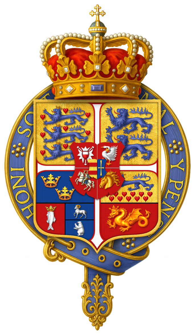 Garter-encircled Coat of Arms of Frederick IX, King of Denmark